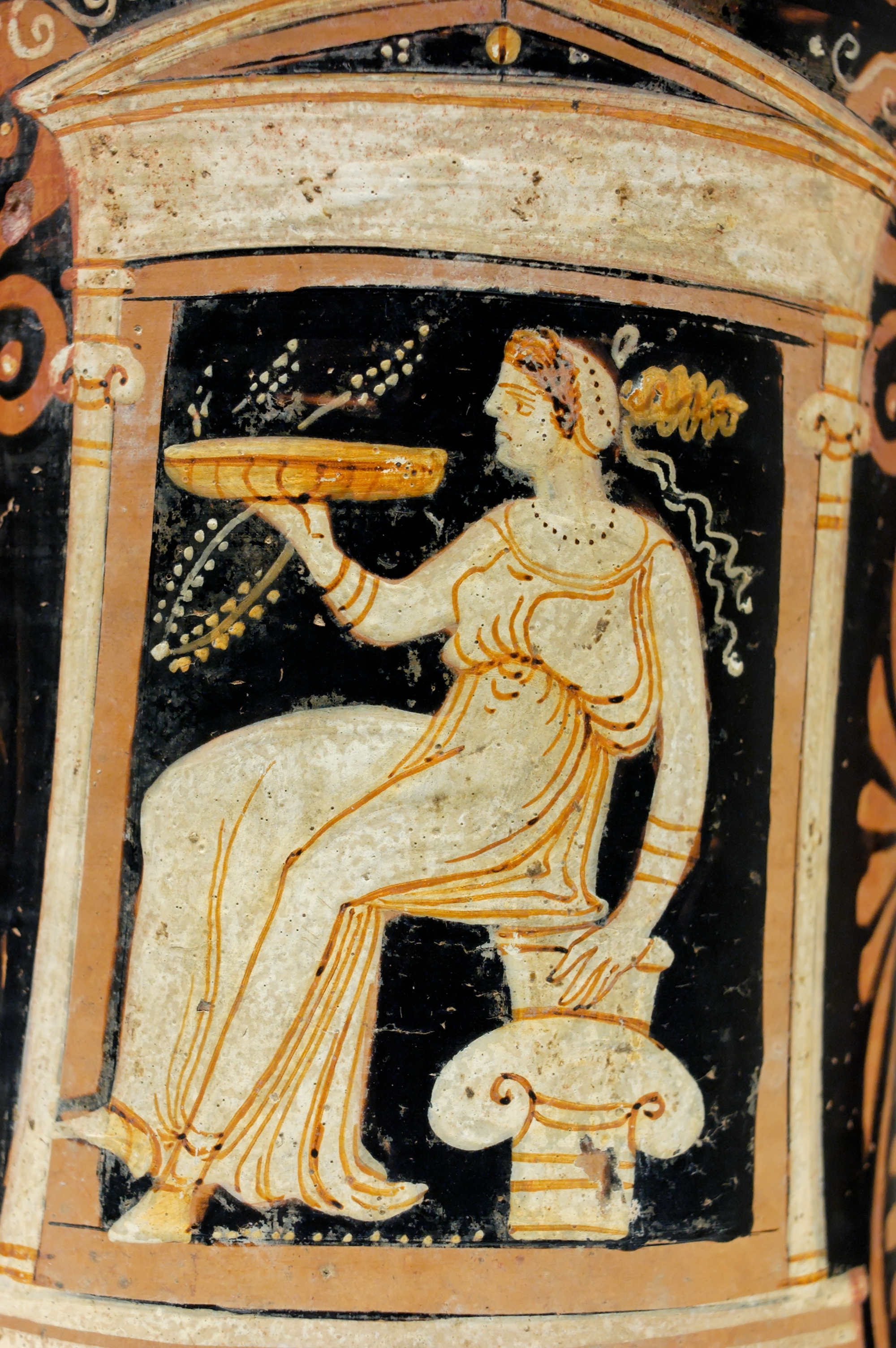 Woman in a naiskos. Detail from an Apulian red-figured barrel-shaped amphora, ca. 320 BC. From Bari.